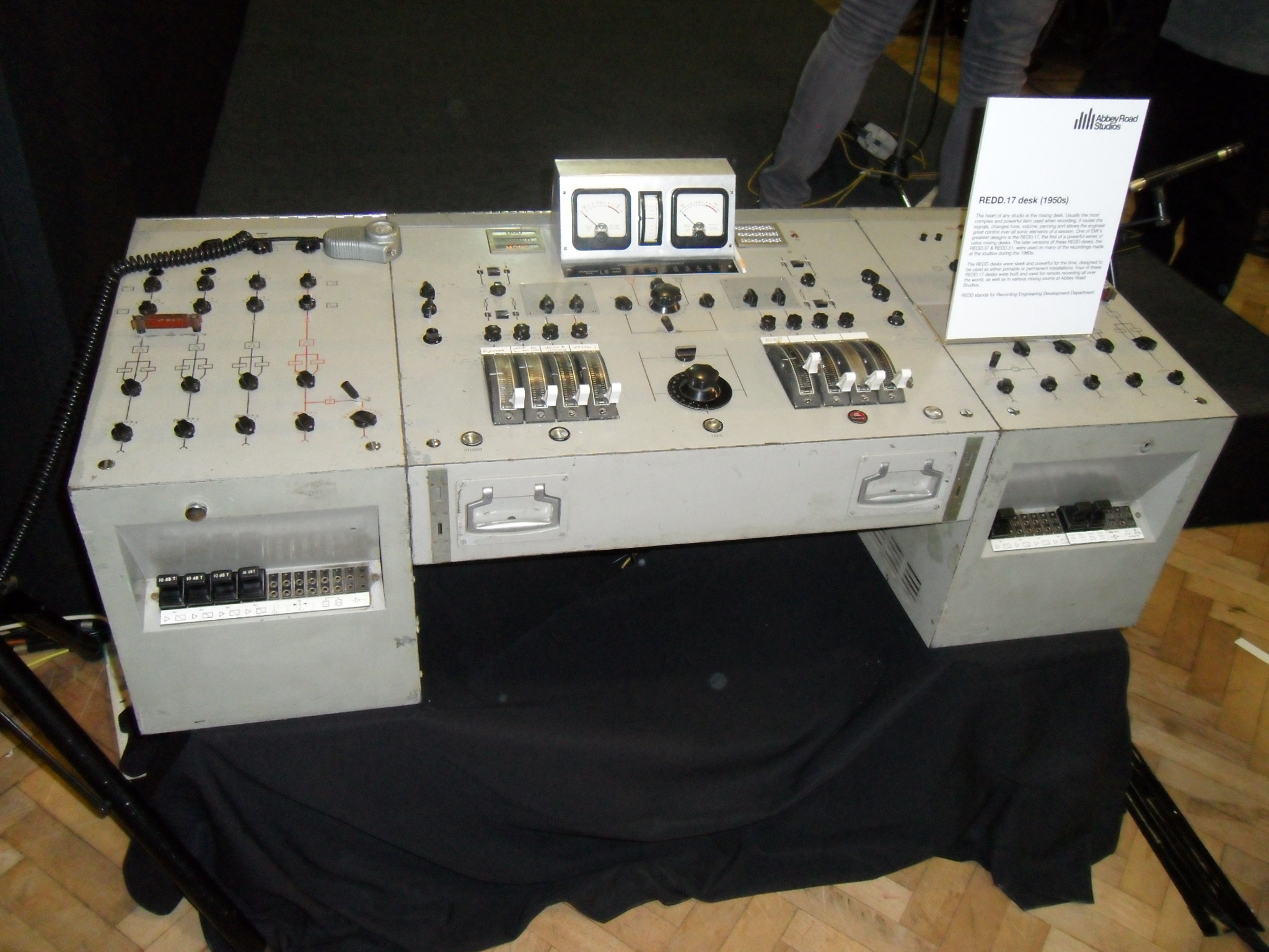 REDD.17 desk (1950s) The heart of any studio is the mixing desk. Usually the most complex and powerful item used when recording, it routes the signals, changes tone, volume, panning and allows the engineer great control over all sonic elements of a session. One of EMI's greatest designs is the REDD.17, the first of a powerful series of valve mixing desks. The later versions of these REDD desks, the REDD.37 & REDD.51, were used on many of the recordings made at the studios during the 1960s. The REDD desks were sleek and powerful for the time, designed to be used as either portable or permanent installations. Four of these REDD.17 desks were built and usedd for remote recording all over the world, as wel as in various mixing rooms at Abbey Road Studios. REDD stands for Recording Engineering Development Department. (quotes from description)